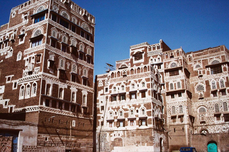 Old Sana'a